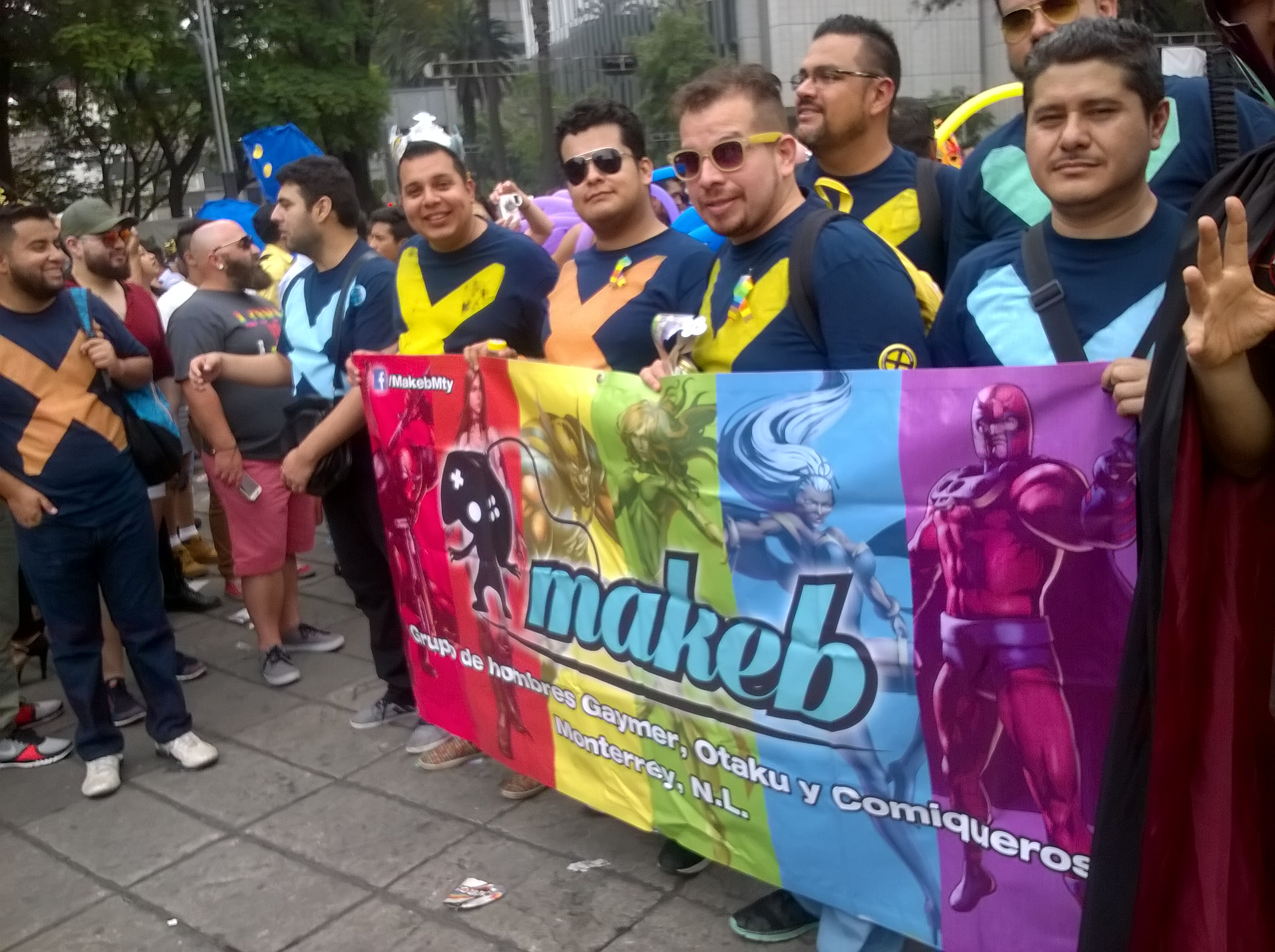 Scene from the Mexico City Pride 2016